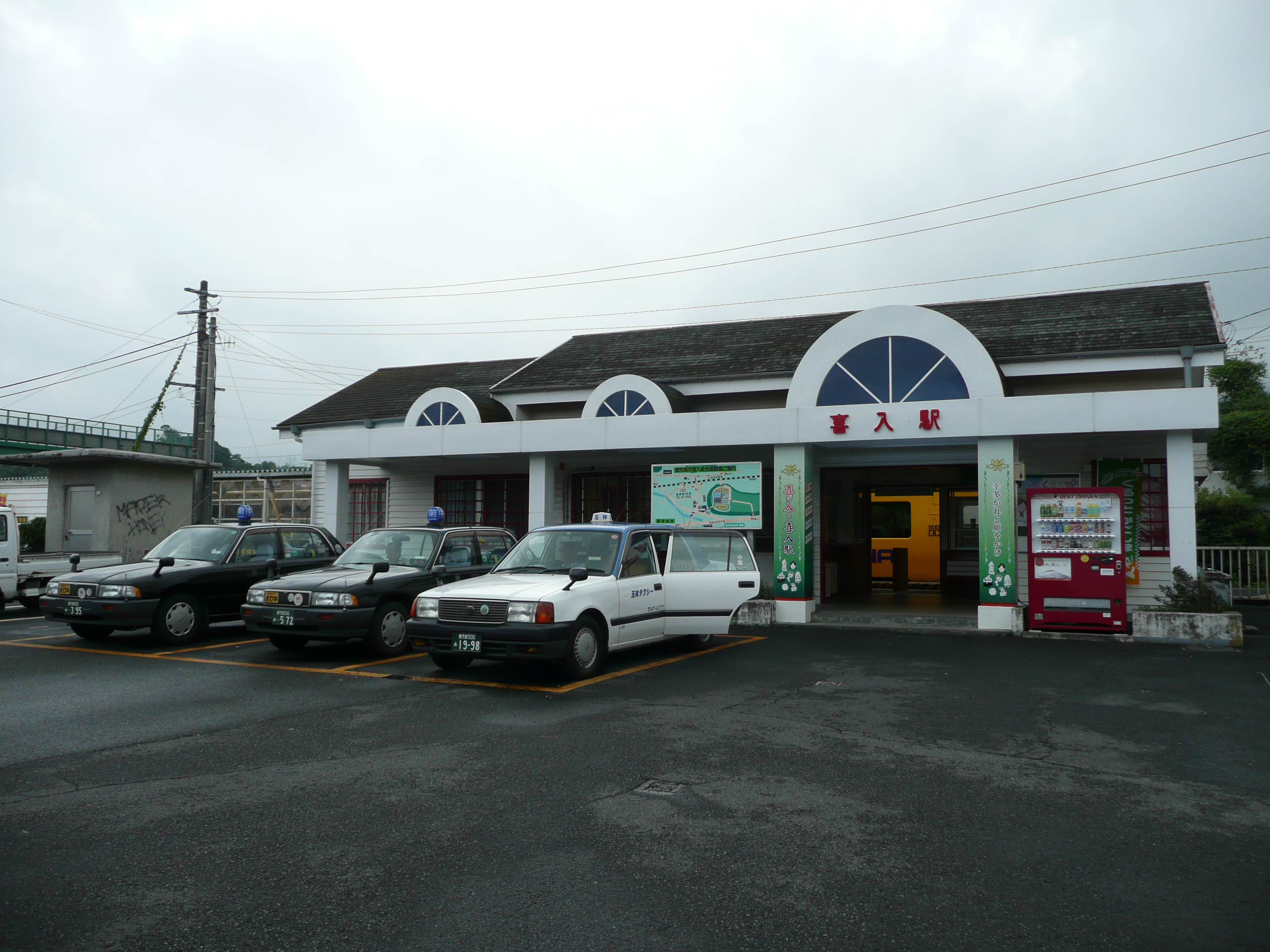 Kiire Station building